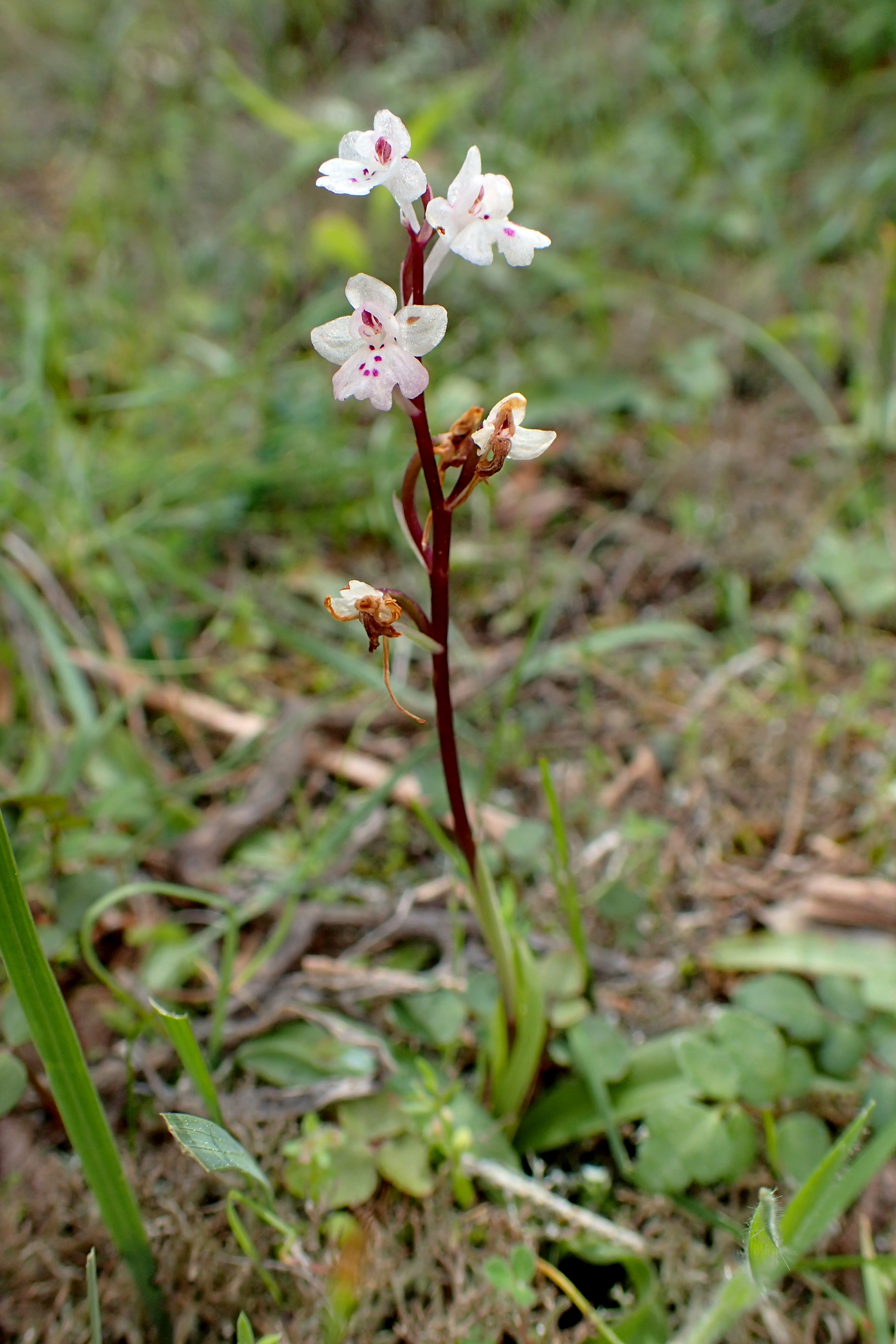 Orchis quadripunctata subsp. sezikiana in Smigies on Akamas Peninsula, Cyprus